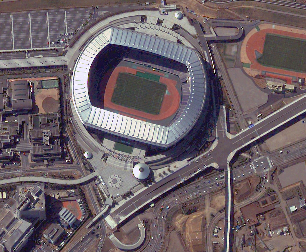 Yokohama Stadium